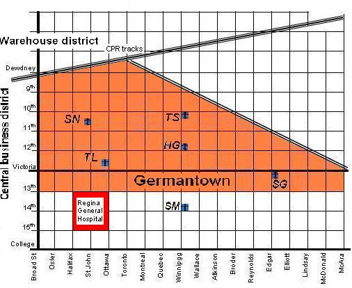 Germantown map